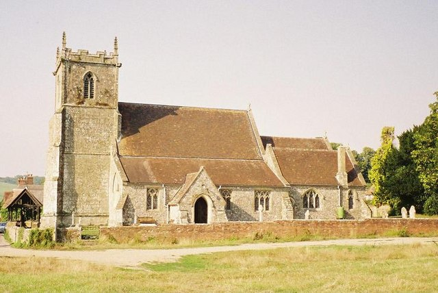 Holy Trinity parish church, Stourpaine, Dorset, seen from the south